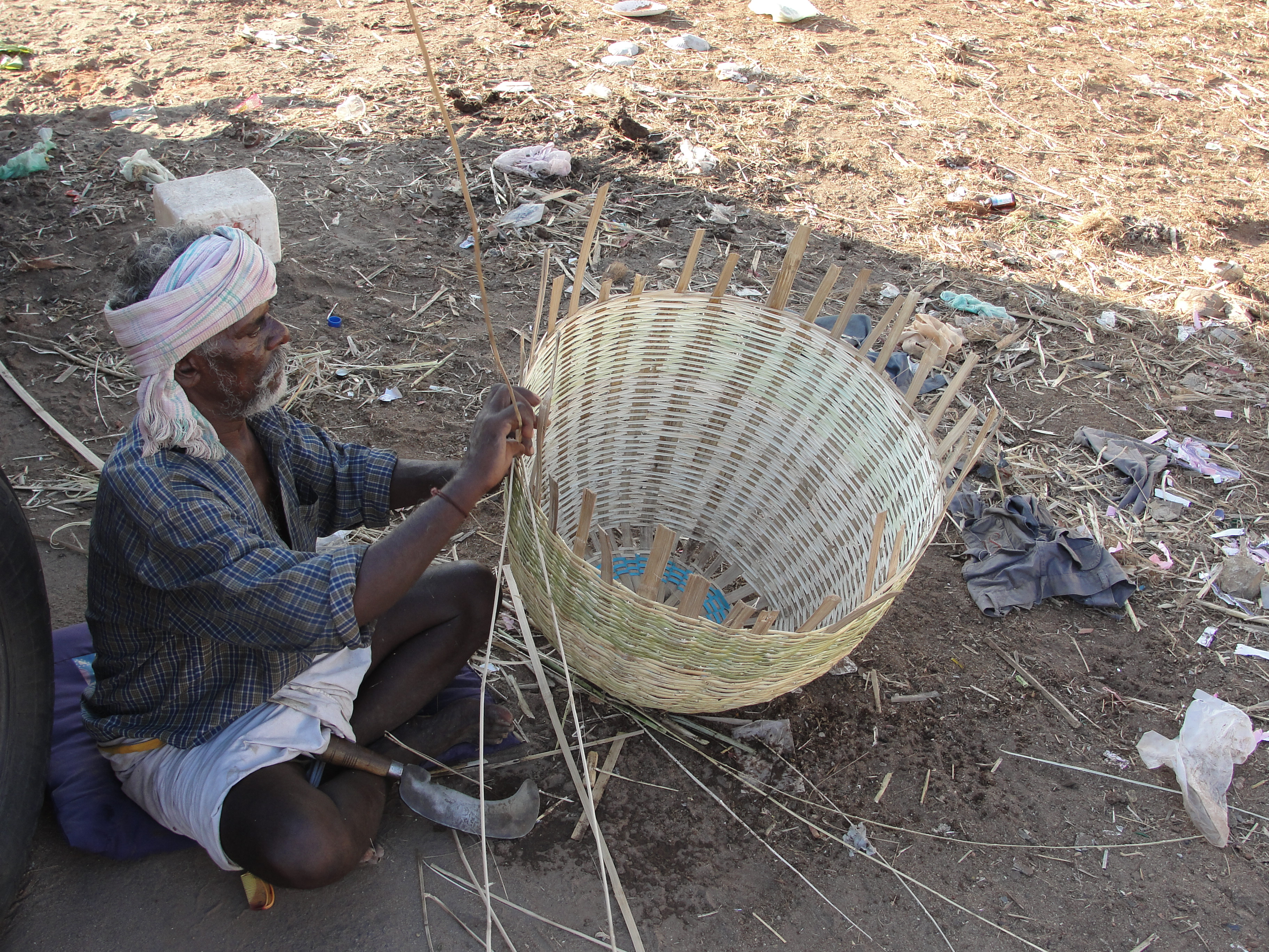 A bamboo basket making